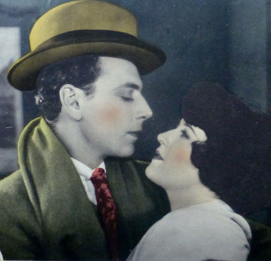 Lobby card for the American comedy drama film Beware of Bachelors (1928). With Audrey Ferris and William Collier Jr.